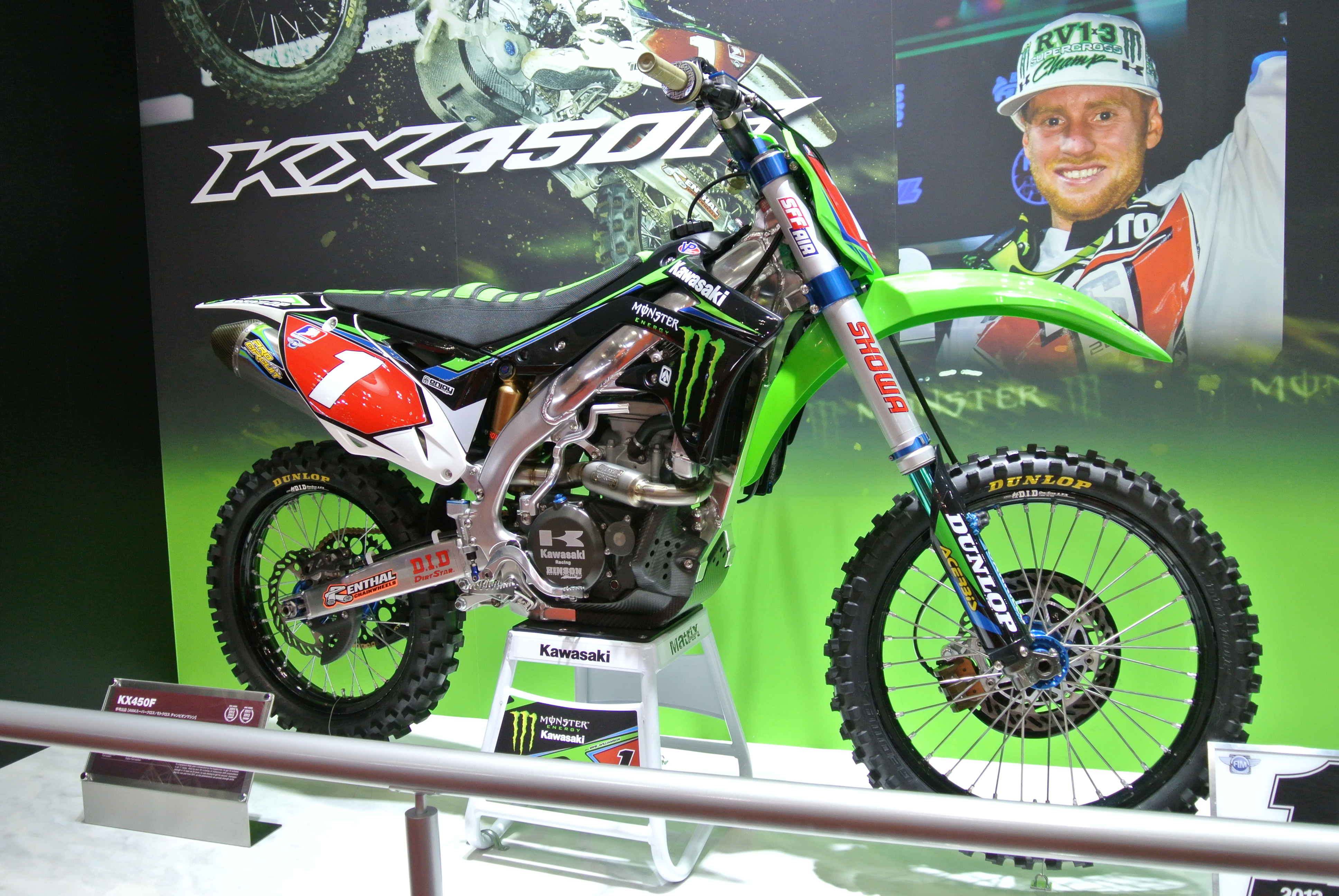 Kawasaki Motocrosser KX450F at 43rd Tokyo Motor Show 2013.